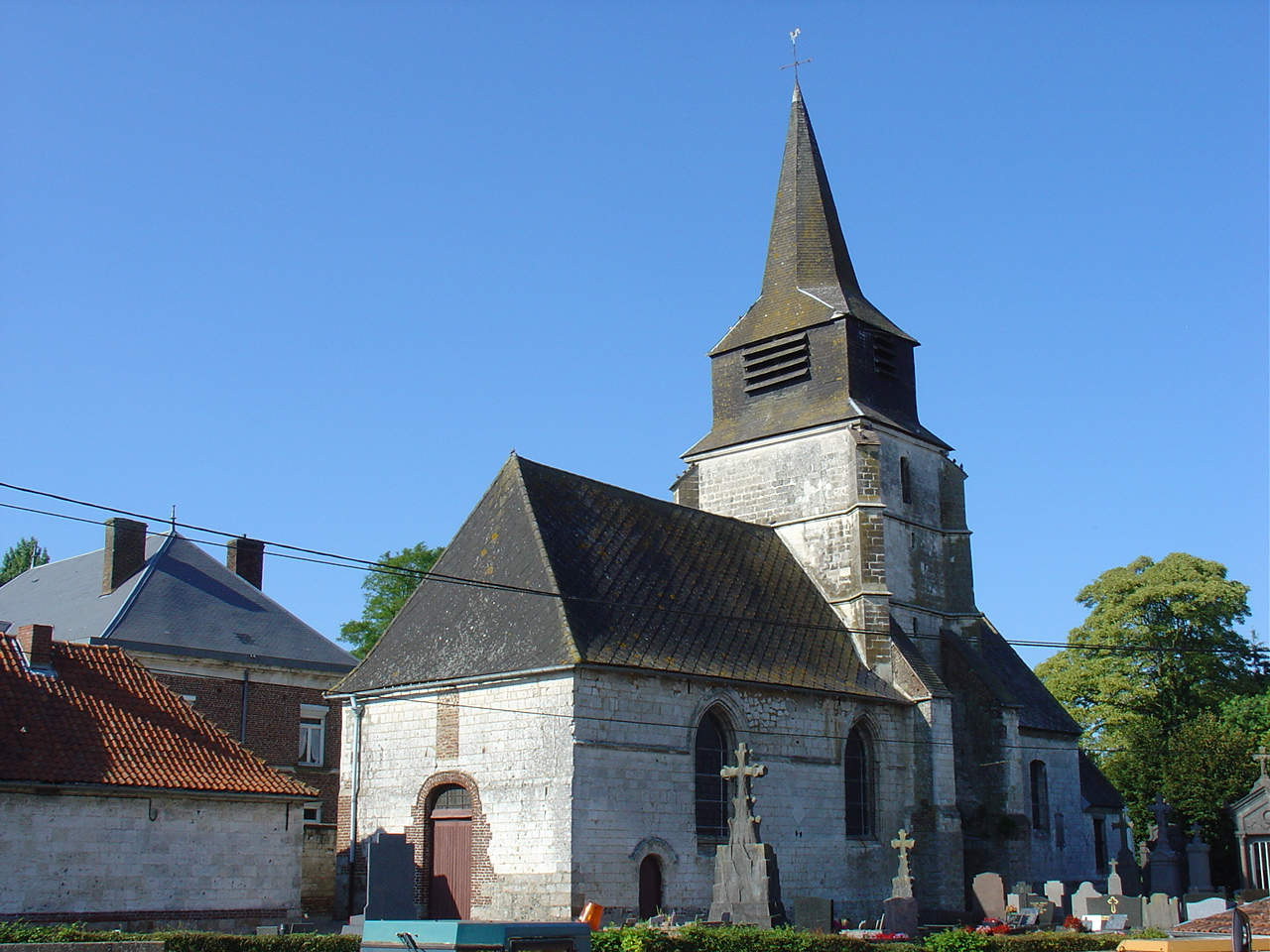 Église de Foufflin-Ricametz